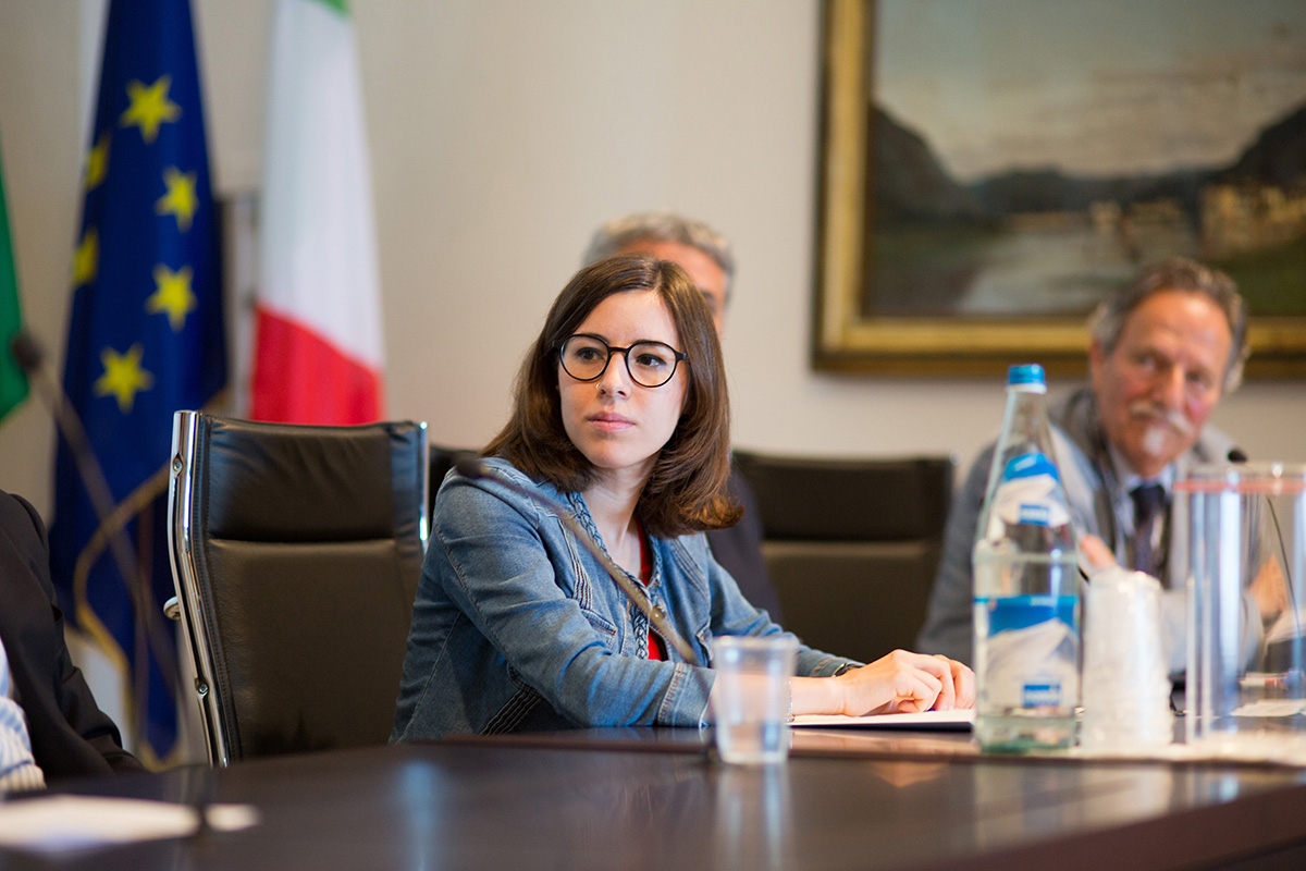 Wikimania 2016 - Press conference in Varenna